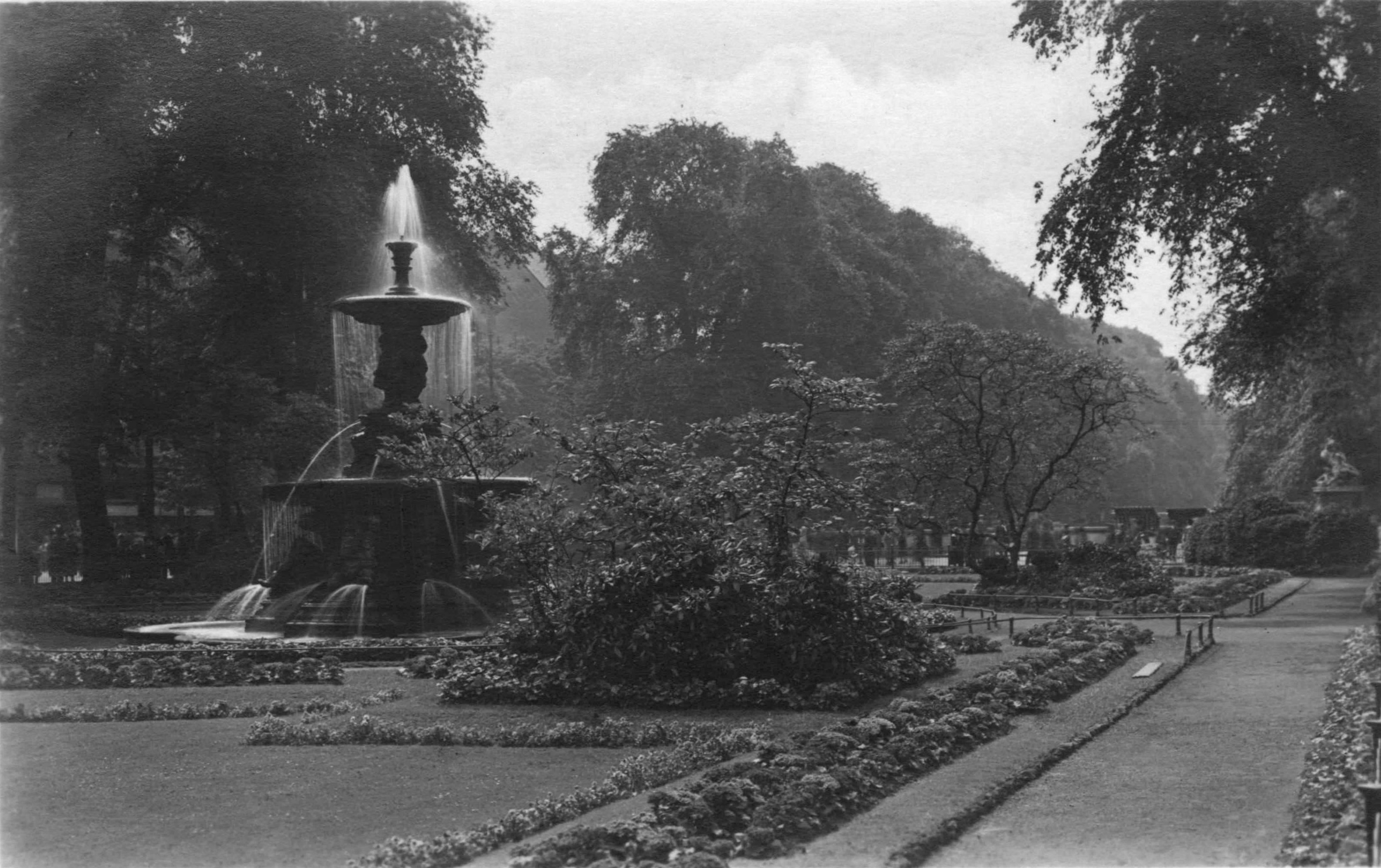 Düsseldorf - Schalenbrunnen